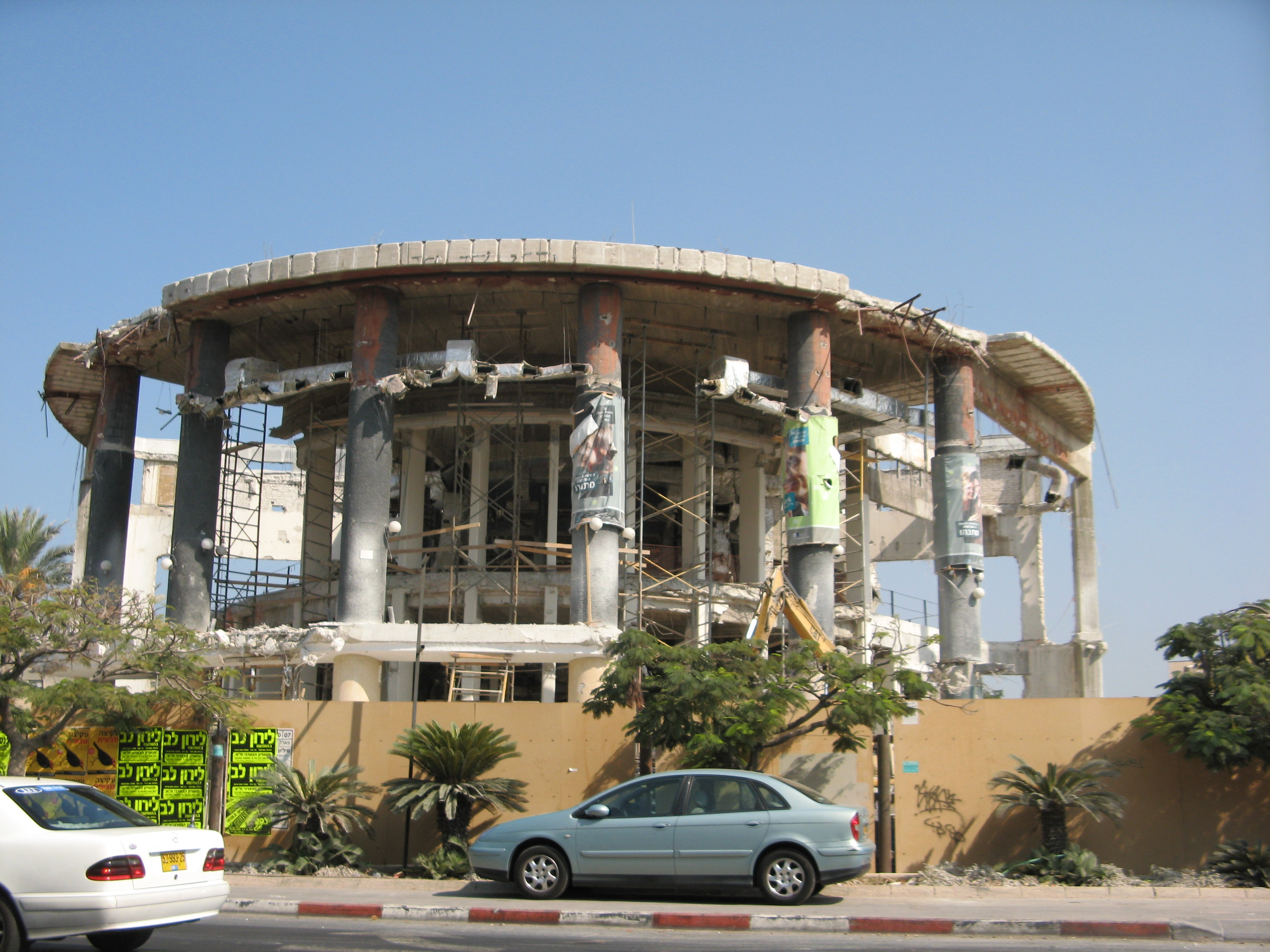 Habima theatre renovation October 2007